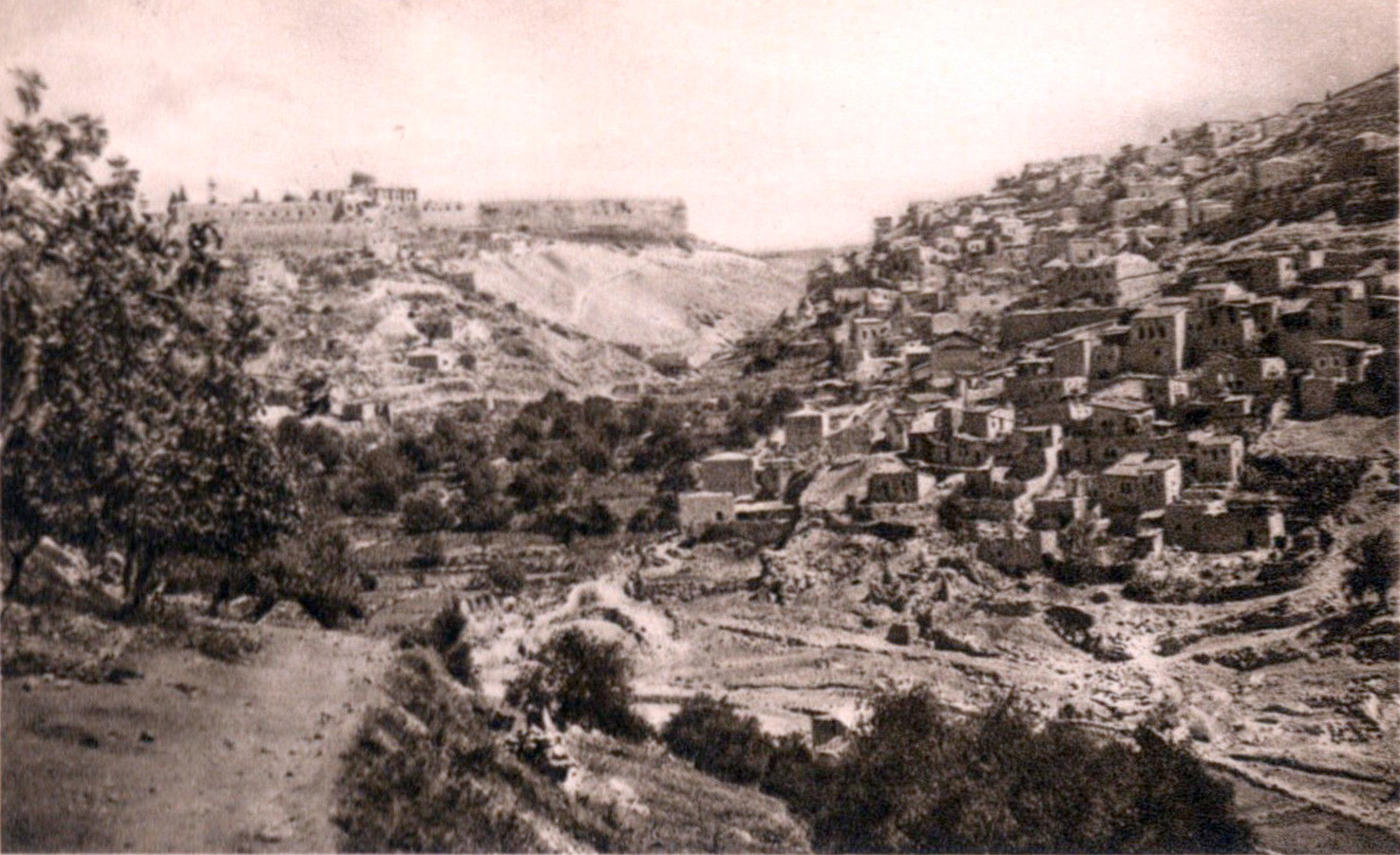 Jerusalem - Valley of Kidron, Siloam and City Wall